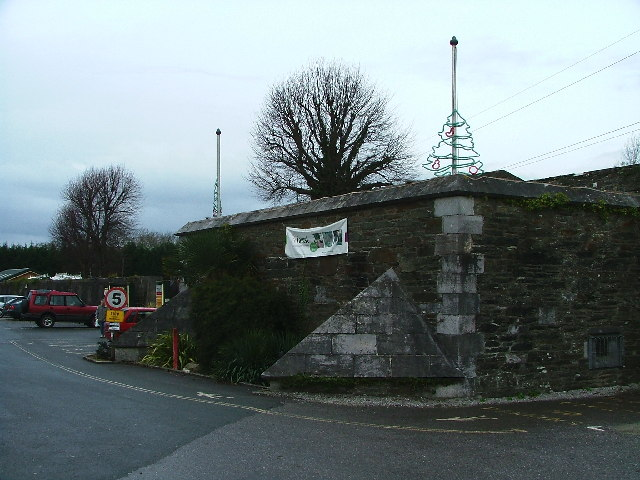 Plymouth Garden Centre, Bowden Battery. The site of the old Bowden Battery, adjacent to Crownhill Road, is now occupied by Plymouth Garden Centre. This image showing part of the surrounding walls adjacent to the main entrance.